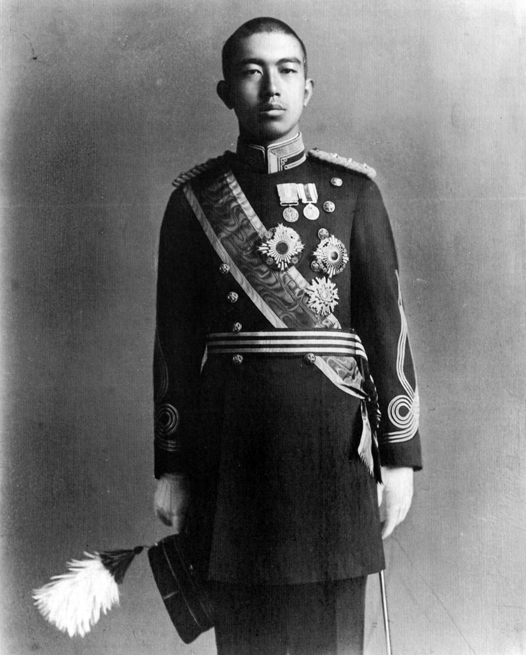 陸軍大尉の正装をした皇太子裕仁親王(Crown Prince Hirohito/Emperor Shōwa)